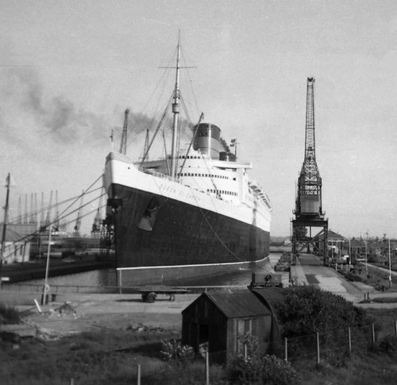 Queen Elizabeth in King George V dock. The Cunard flagship and World's largest liner RMS Queen Elizabeth, afloat and apparently with auxiliary power, in the King George V dry dock. There is little room to spare. The ship was completed in 1940 and retired in 1968. It later suffered an inglorious end after capsizing in Hong Kong harbour in 1972.